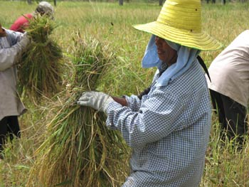 Ha Tran, Fairtrade Labelling Organizations